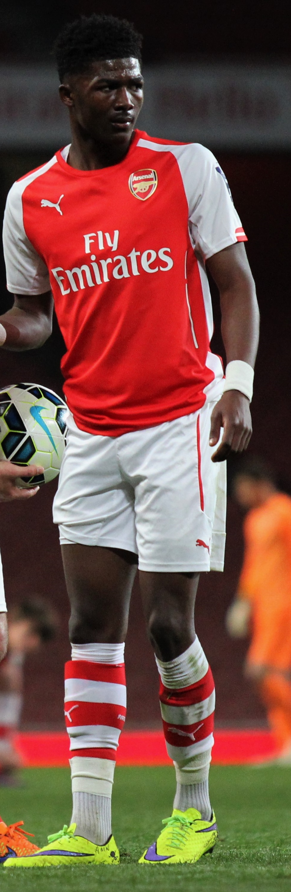 Ainsley Maitland-Niles